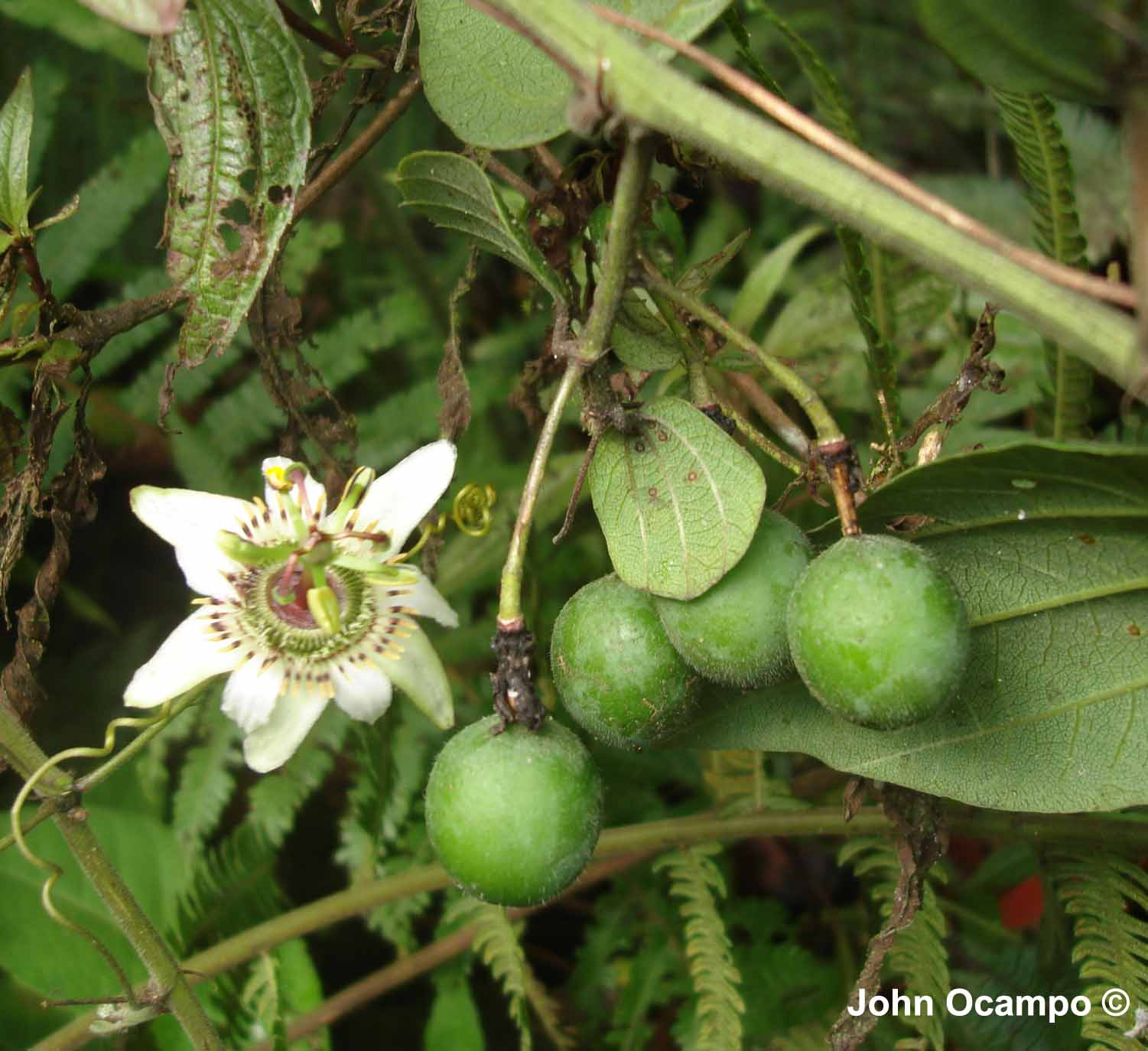 Passiflora cuspidifolia (Subgénero Decaloba), fotografia tomada en el minicipio de Sibate (Cundinamarca - Colombia). Endémica de Colombia